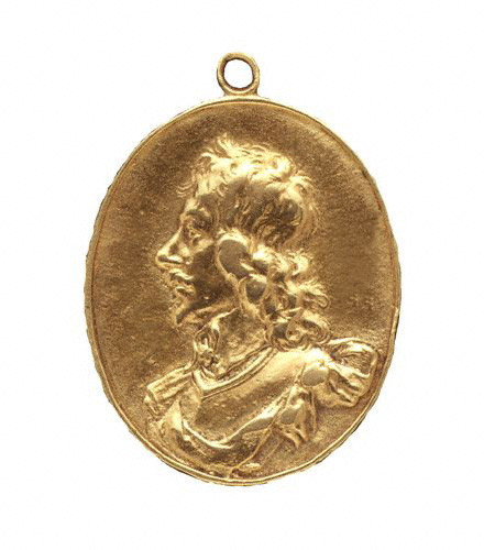 Gold medal depicting profile of Thomas Fairfax, 3rd Baron Fairfax of Cameron by Thomas Simon (1618-1665). National Portrait Gallery, London. Primary Collection: NPG 4624